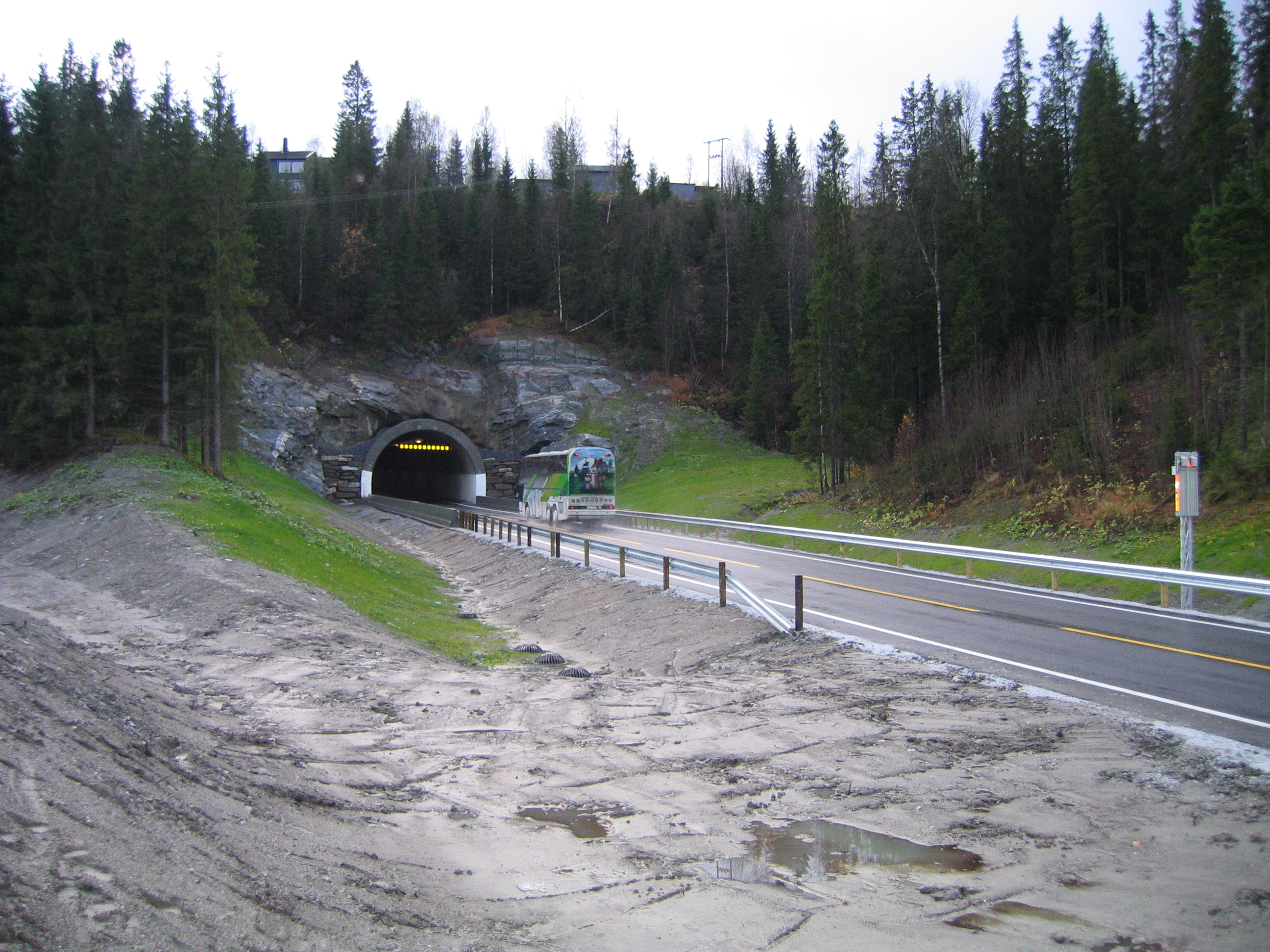 North portal into the Korgfjelltunnelen. Picture taken 2005-10-14 by myself.